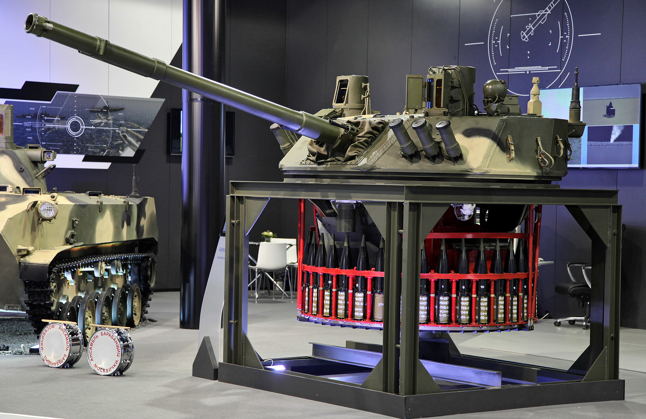 Bakhcha weapon module